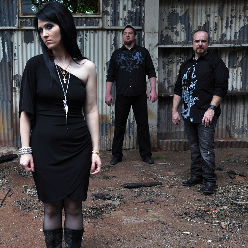 Angelical Tears Band Photo